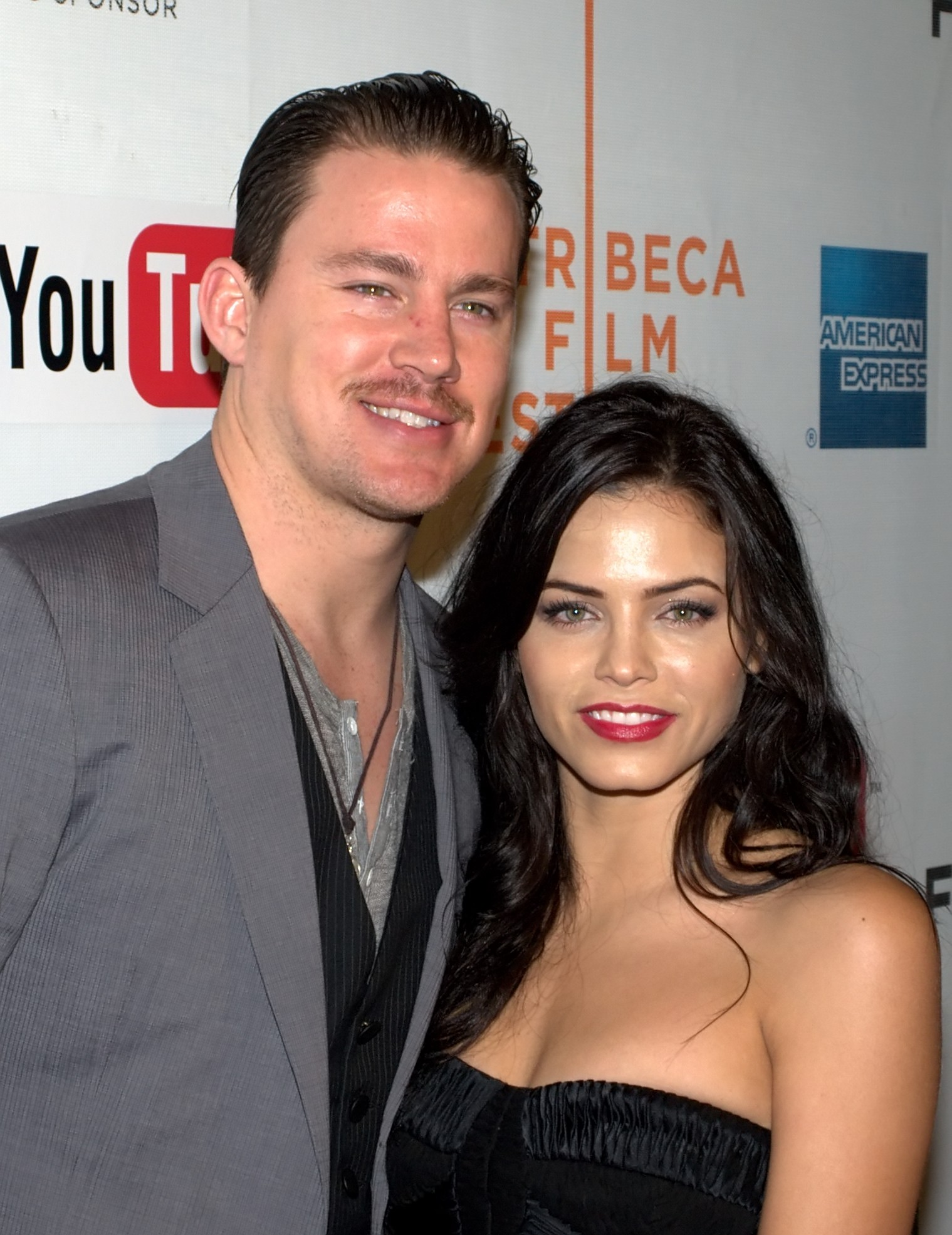 Channing Tatum and Jenna Dewan at Tribeca Film Festival 2010